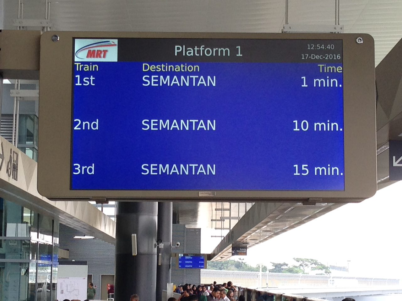 MRT SBK platform info display